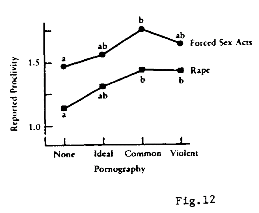 Source: Figure 12 in Zillmann, Dolf: "Effects of Prolonged Consumption of Pornography", [1], included in the Report of the Surgeon General's Workshop on Pornography and Public Health, United States Public Health Service, Office of the Surgeon General, August 4, 1986